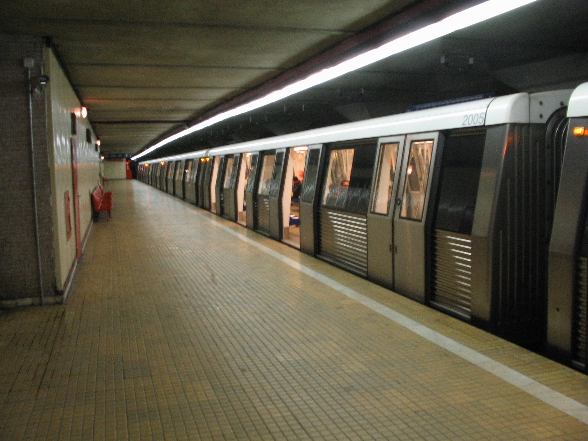 Metro train waiting departure at Pipera metro station, Bucharest, Romania